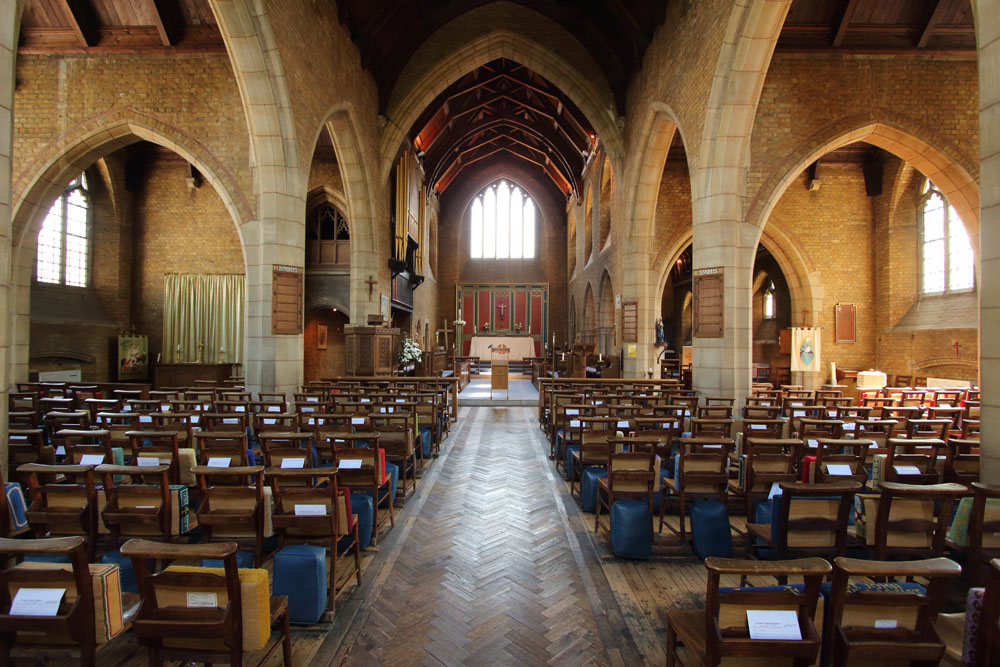 All Saints, The Avenue, Hampton - East end